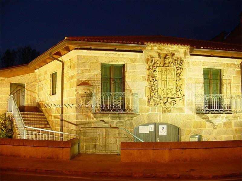 Casa del escudo